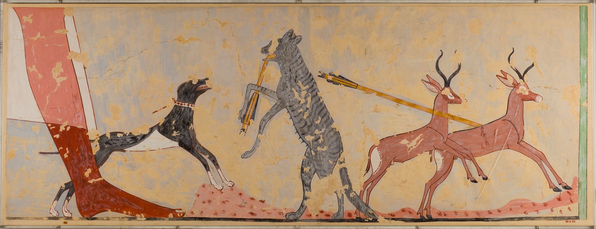 Facsimile, Ineni (TT 81), dog, wild dog [hyena], gazelle